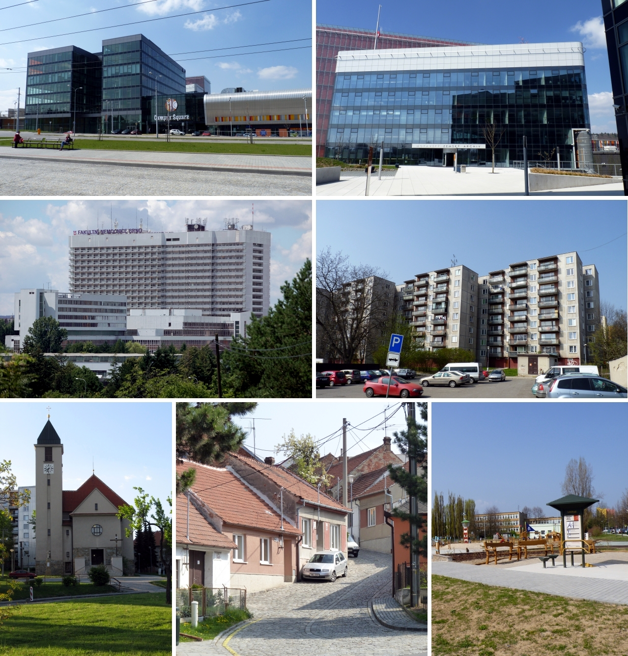 The Center for Adult Medicine in Brno-Bohunice